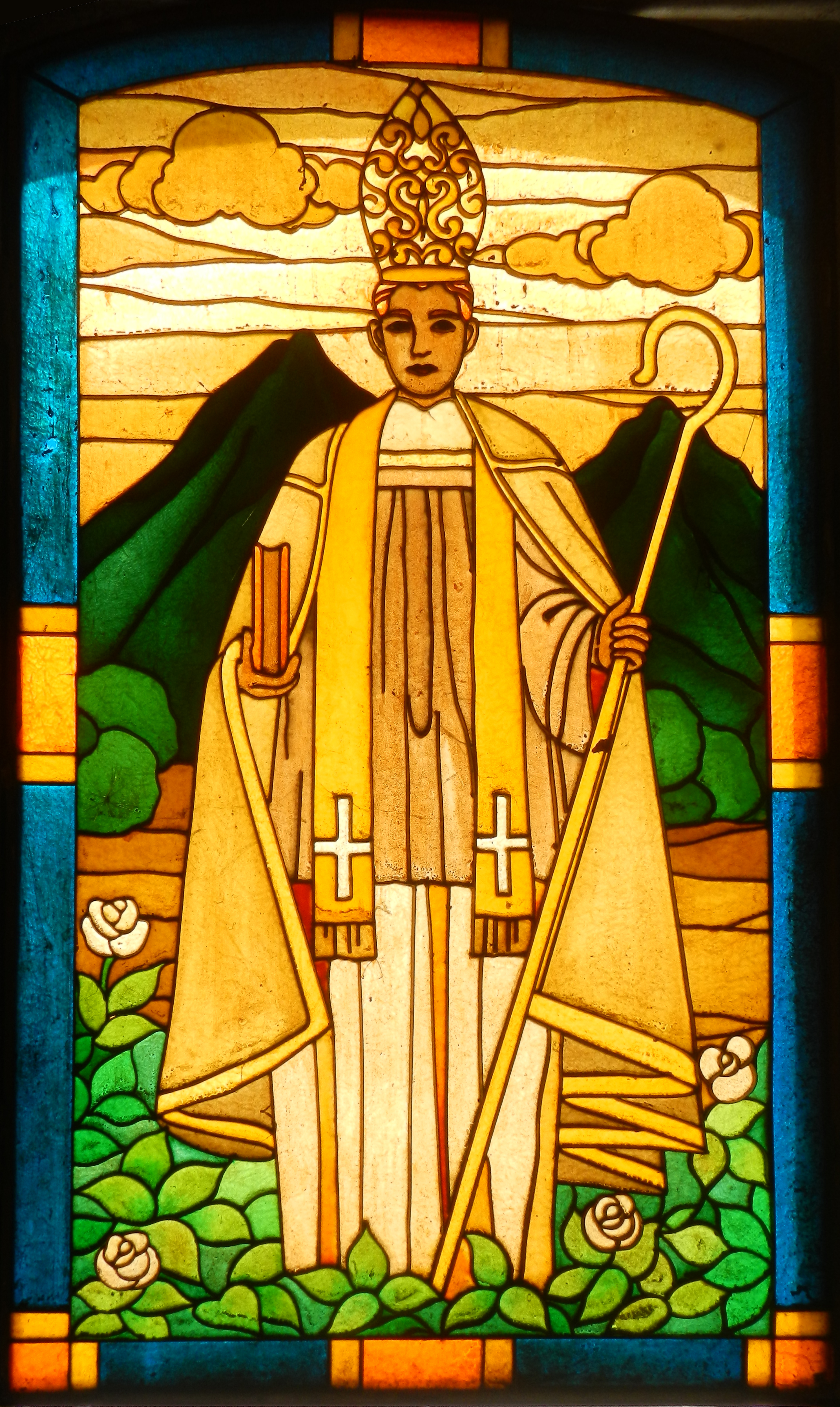 Saint Hildefonsus in a stained glass window in the church of Guiguinto, Philippines